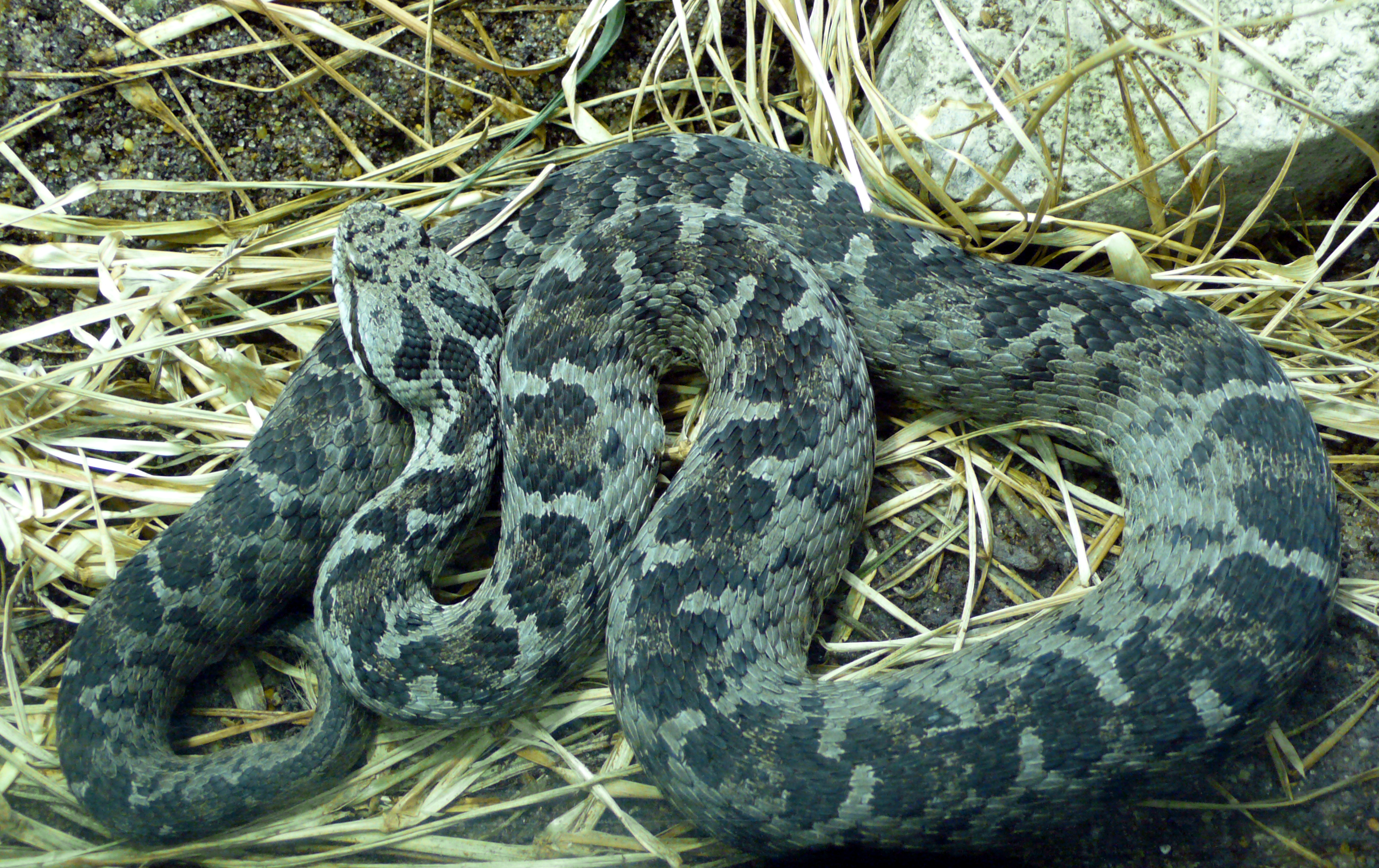 Bulgardagh viper or sometimes called a Bolkar Viper (Vipera bulgardaghica or Montivipera bulgardaghica)